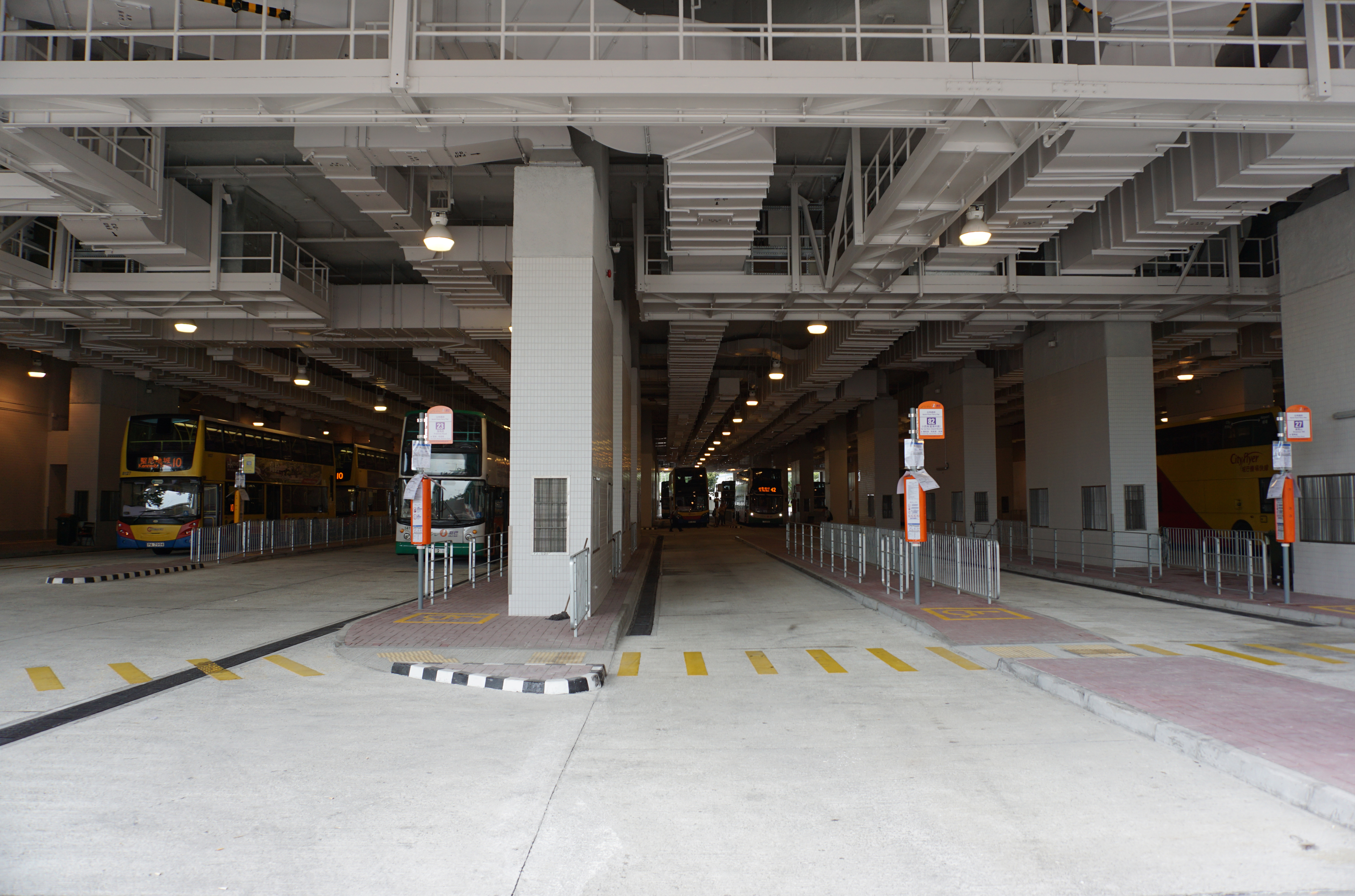 Ferry Pier Public Transport Interchange in North Point, Hong Kong.